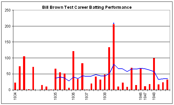 Test batting chart of Bill Brown (cricketer). Red columns are the runs in the innings. Blue dots indicate not outs. Blue line is average in the last ten innings. Thanks to Raven4x4x for providing the template. This graph was generated with Microsoft Excel 2002, using data from Cricinfo [1] and HowStat [2].